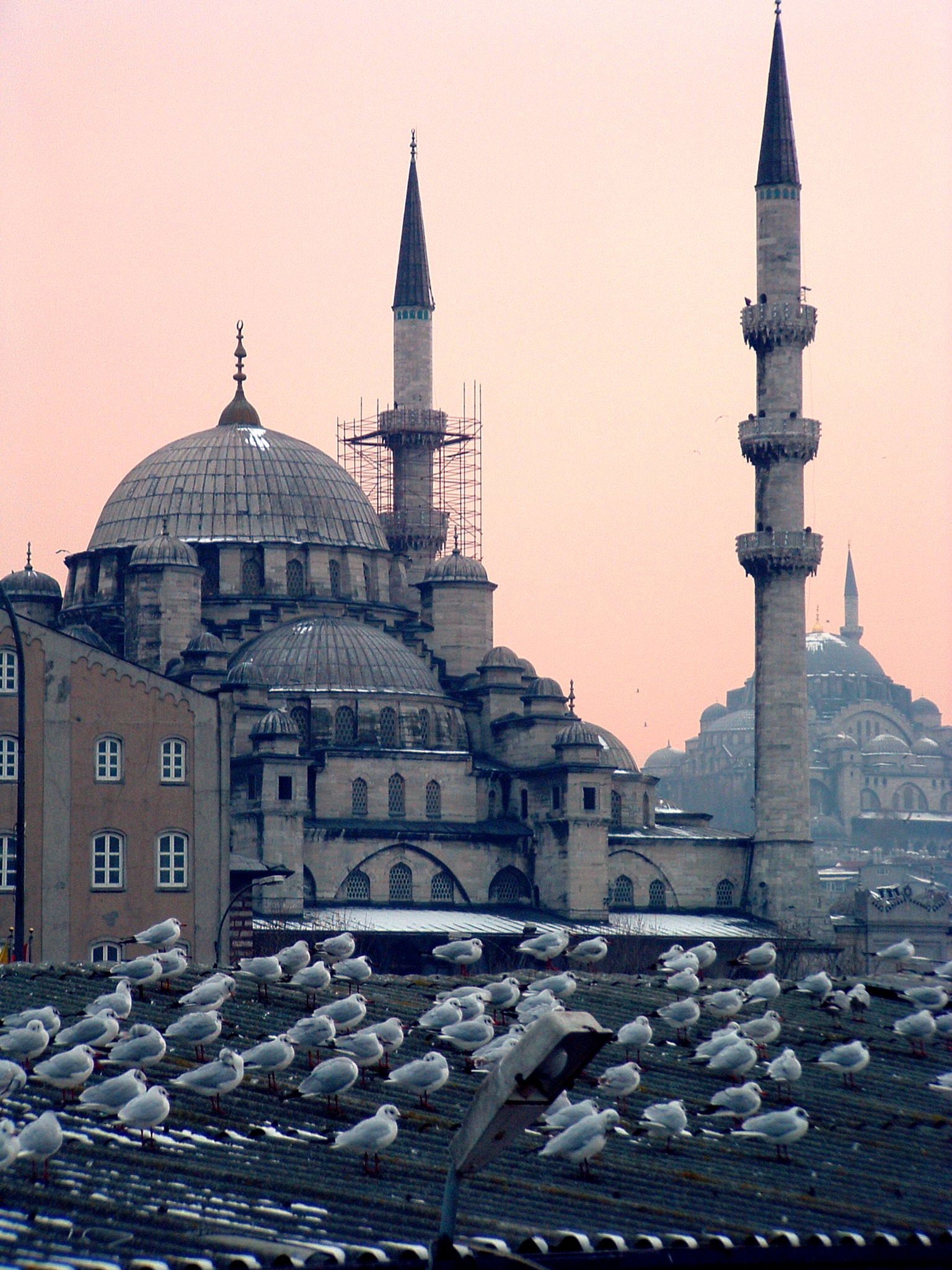 Mosques at dusk in Istanbul with seagulls in foreground Author Christiaan Briggs Time of creation 9 Feb, 2003 Licence GNU FDL and CC-by-SA Camera Fujifilm Finepix S304 Focal length 20.40 mm Shutter 1/70 Aperture f2.8 ISO Speed 100